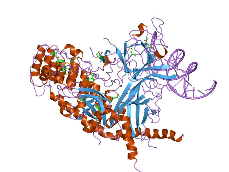 Cartoon representation of the molecular structure of protein registered with 2fo1 code.